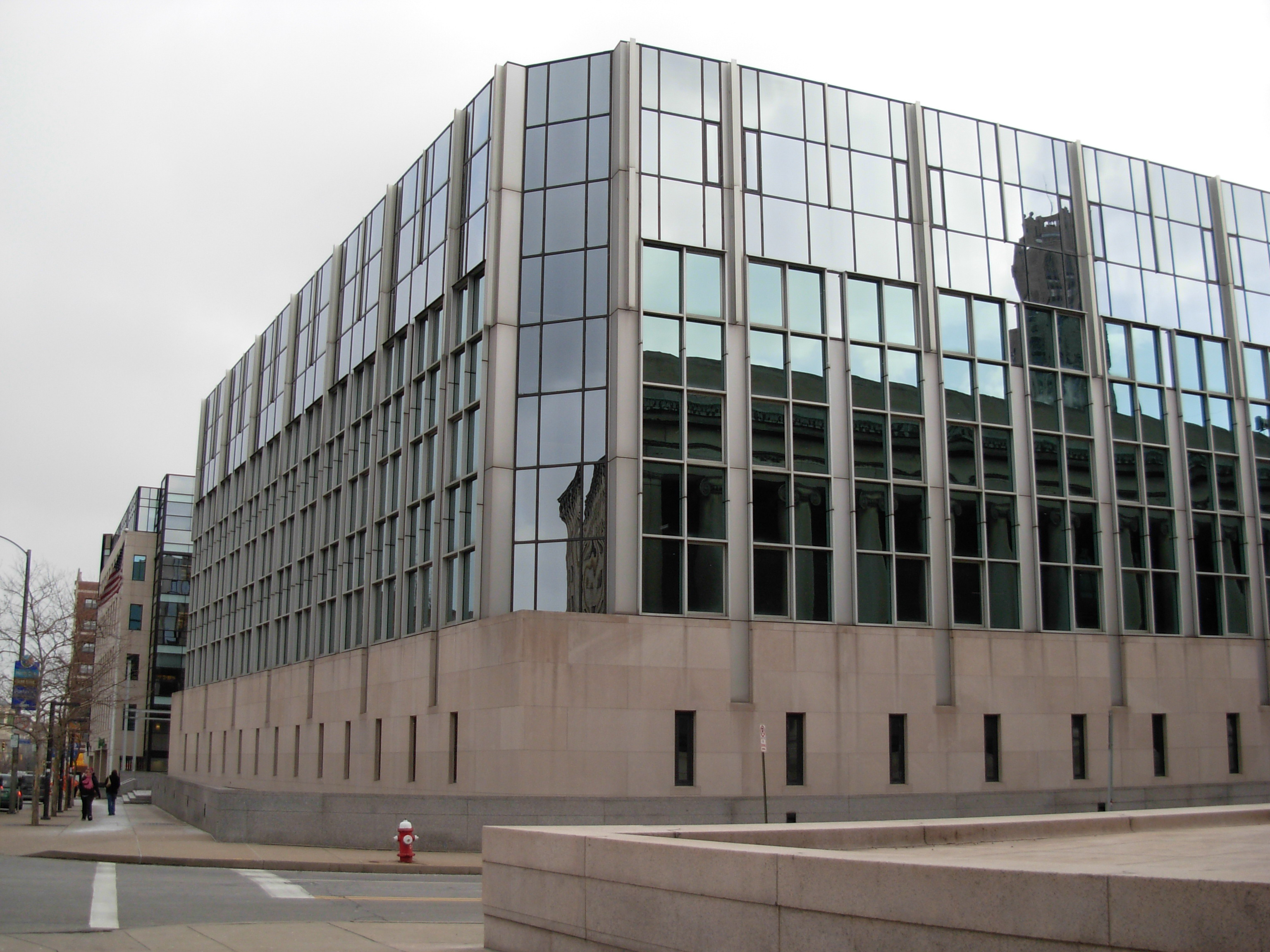 Software Engineering Institute. Photo by myself.